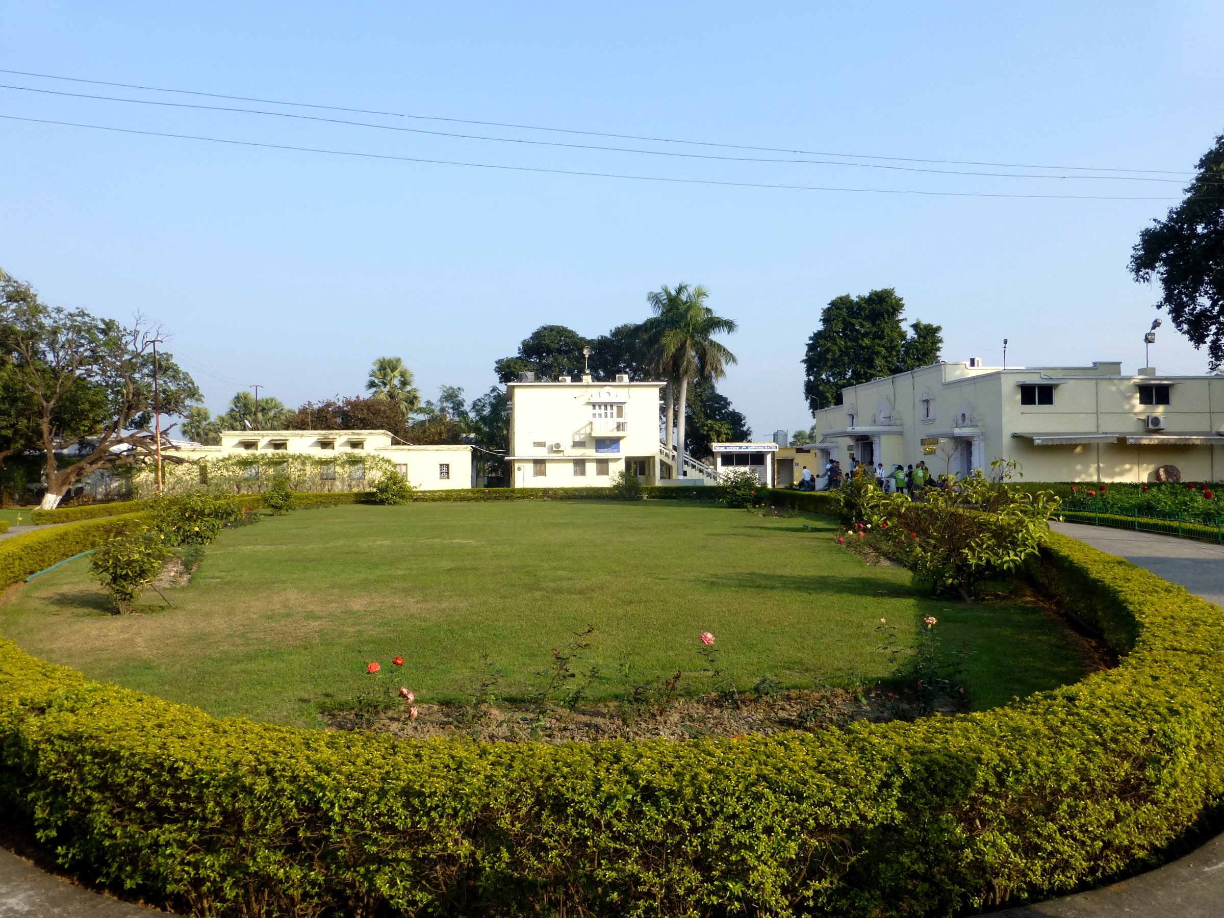 Nalanda Archaeologicall Museum India